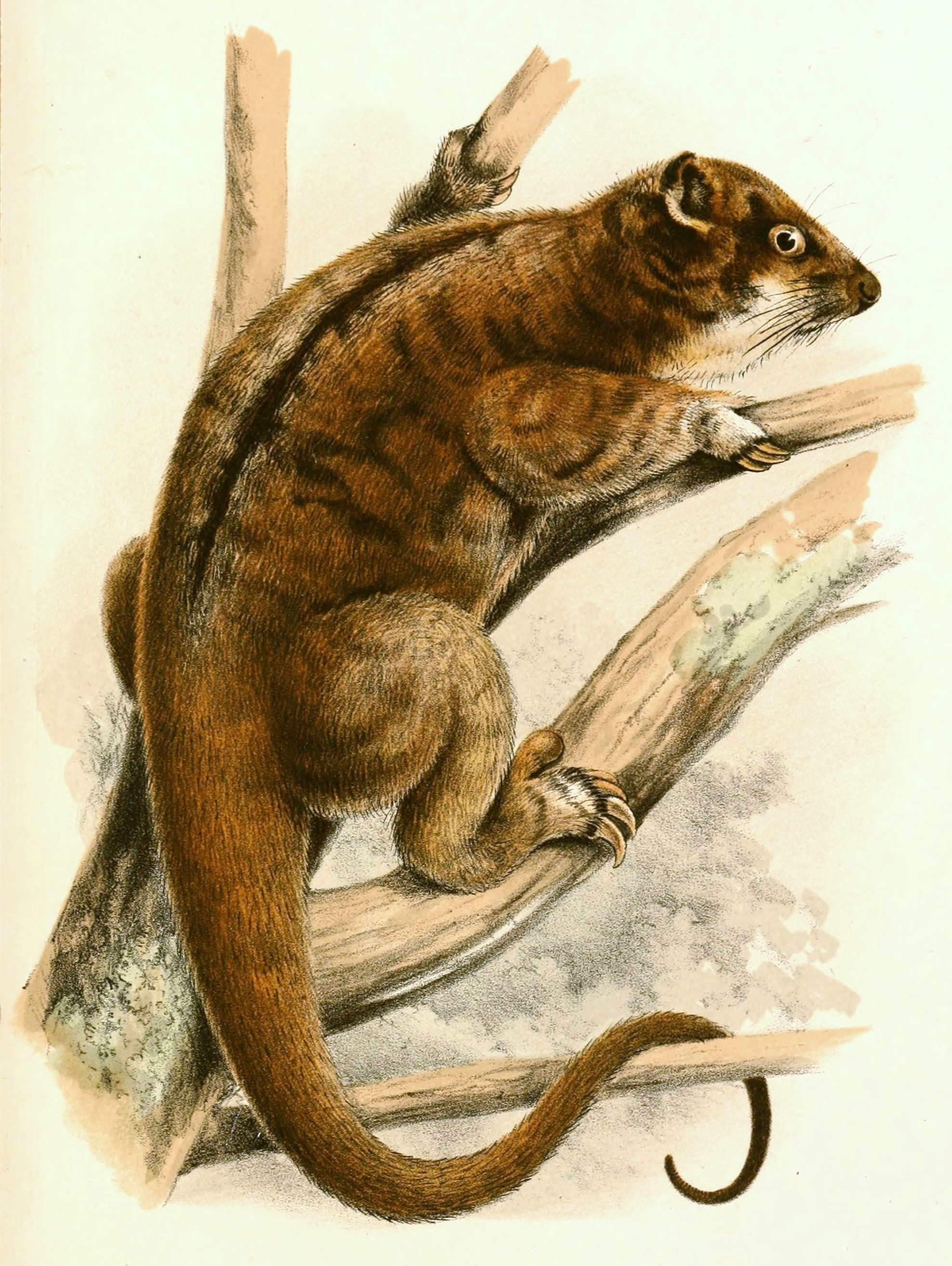 Pseudochirus corinnæ = Plush-coated Ringtail Possum (Pseudochirops corinnae)